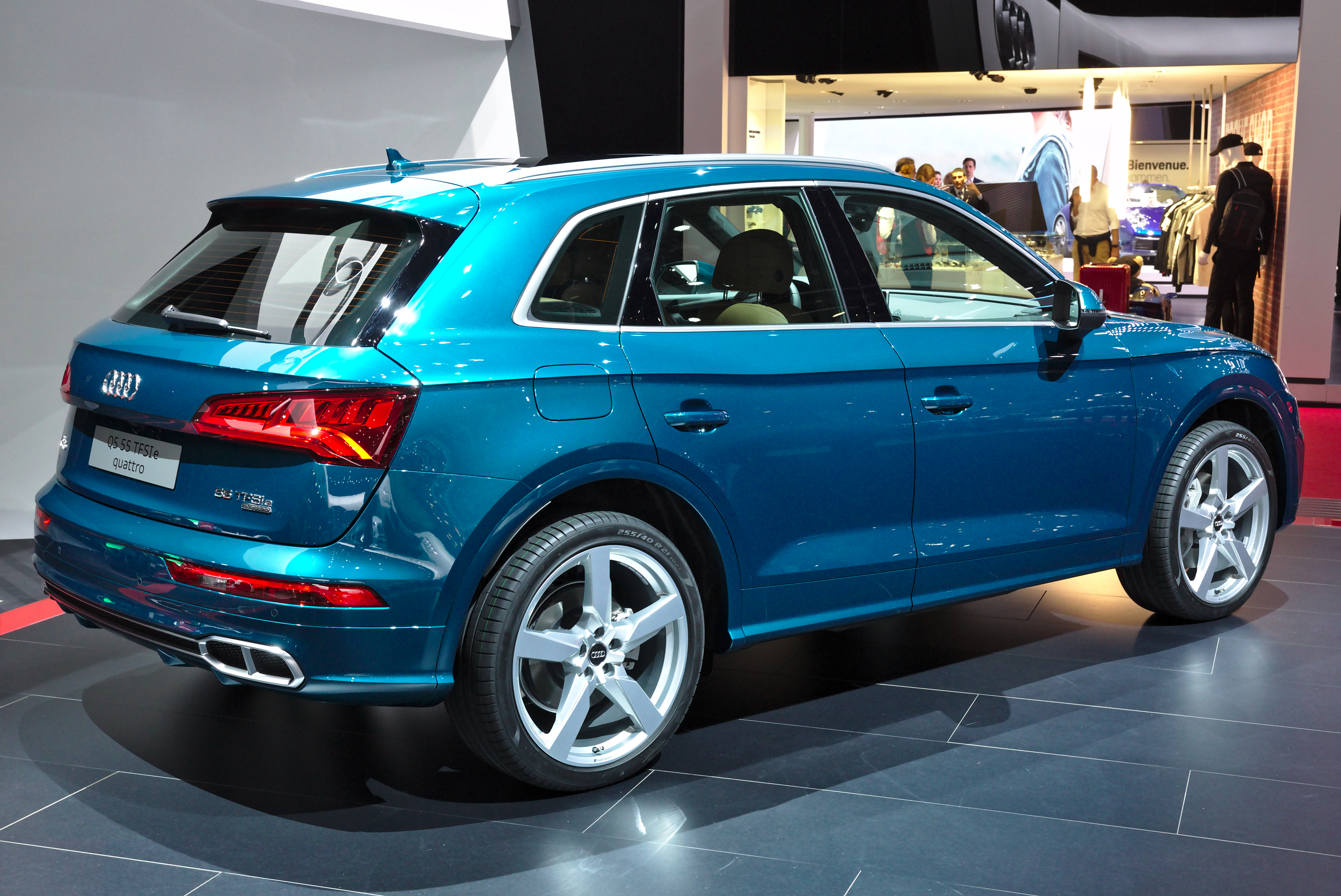 Audi Q5 55 TFSIe Quattro at Geneva Motor Show 2019